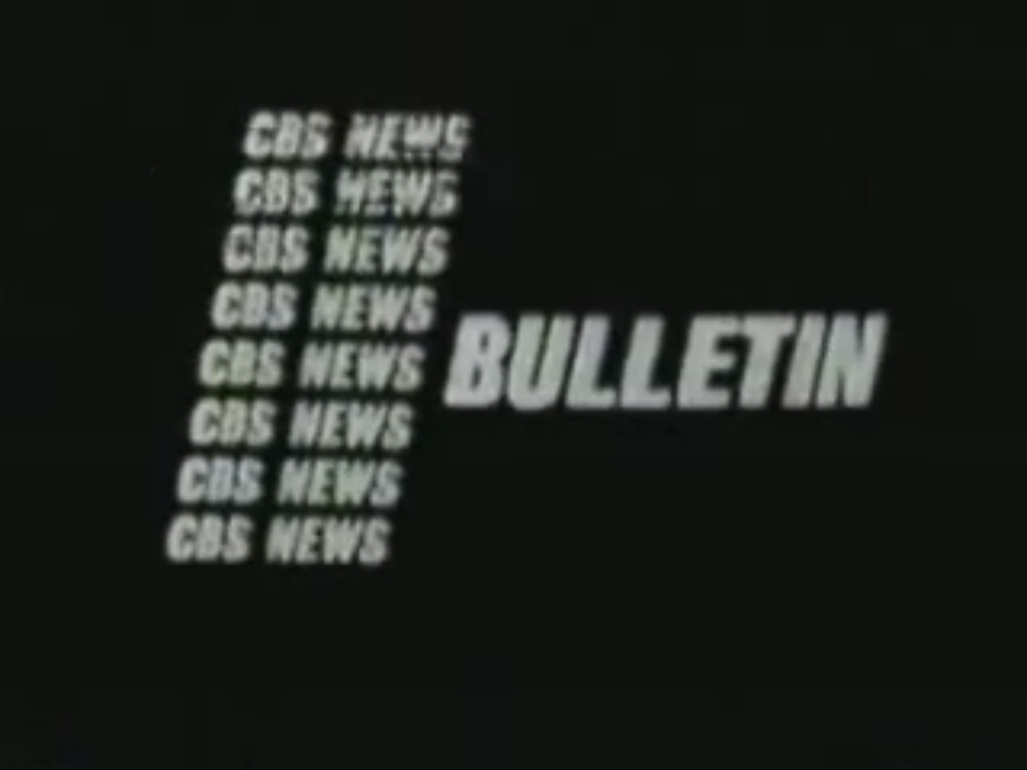 Walter Cronkite is vividly remembered by many Americans for breaking the news of the death of President Kennedy on Friday, November 22, 1963. Cronkite had been standing at the United Press International wire machine in the CBS newsroom as the bulletin of the President's shooting broke and clamored to get on the air to break the news. However, cameras were not ready for use and Cronkite would be forced to break the news without them while one warmed up. At 1:40 p.m., a "CBS News Bulletin" bumper slide broke into the live broadcast of As the World Turns (ATWT). Over the slide, Cronkite began reading: "Here is a bulletin from CBS News. In Dallas, Texas, three shots were fired at President Kennedy's motorcade in downtown Dallas. The first reports say that President Kennedy has been seriously wounded by this shooting."